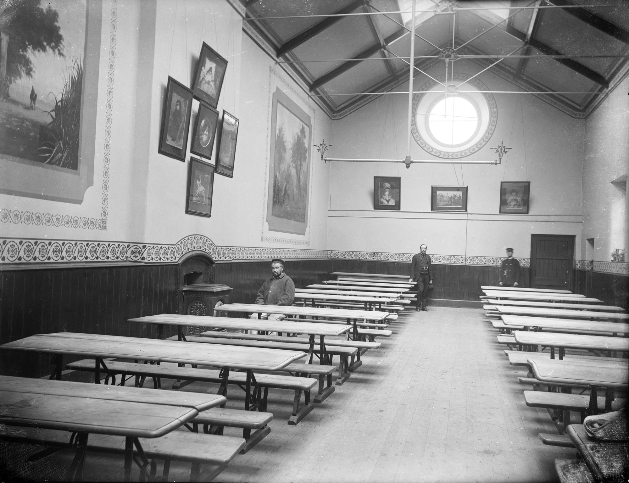 Waterford District Lunatic Asylum on John's Hill in Waterford. Now knowns at St. Otteran's. NLI Ref.: P_WP_0131